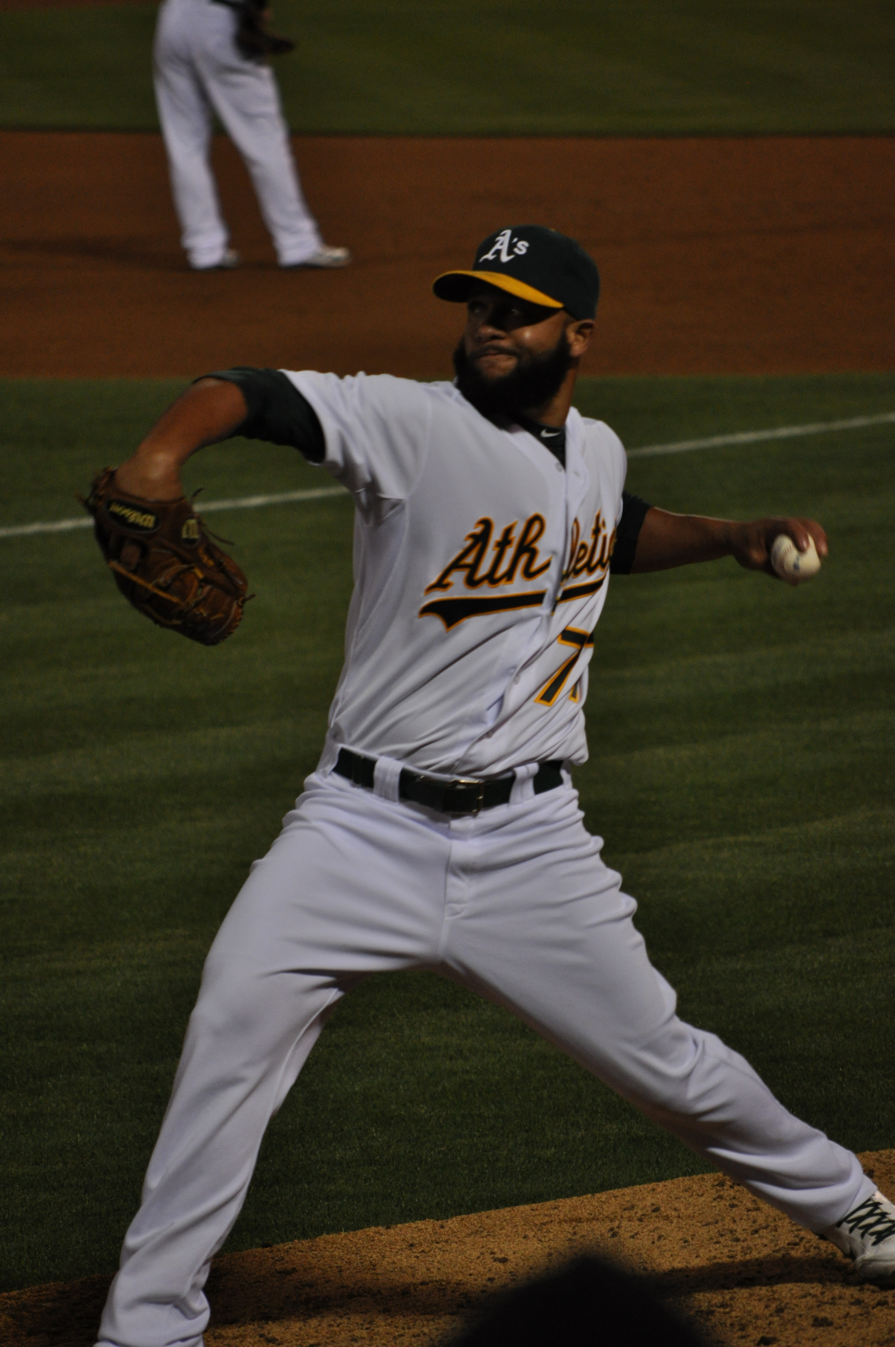 Norberto warms up during the 5-25-12 game against the Yankees